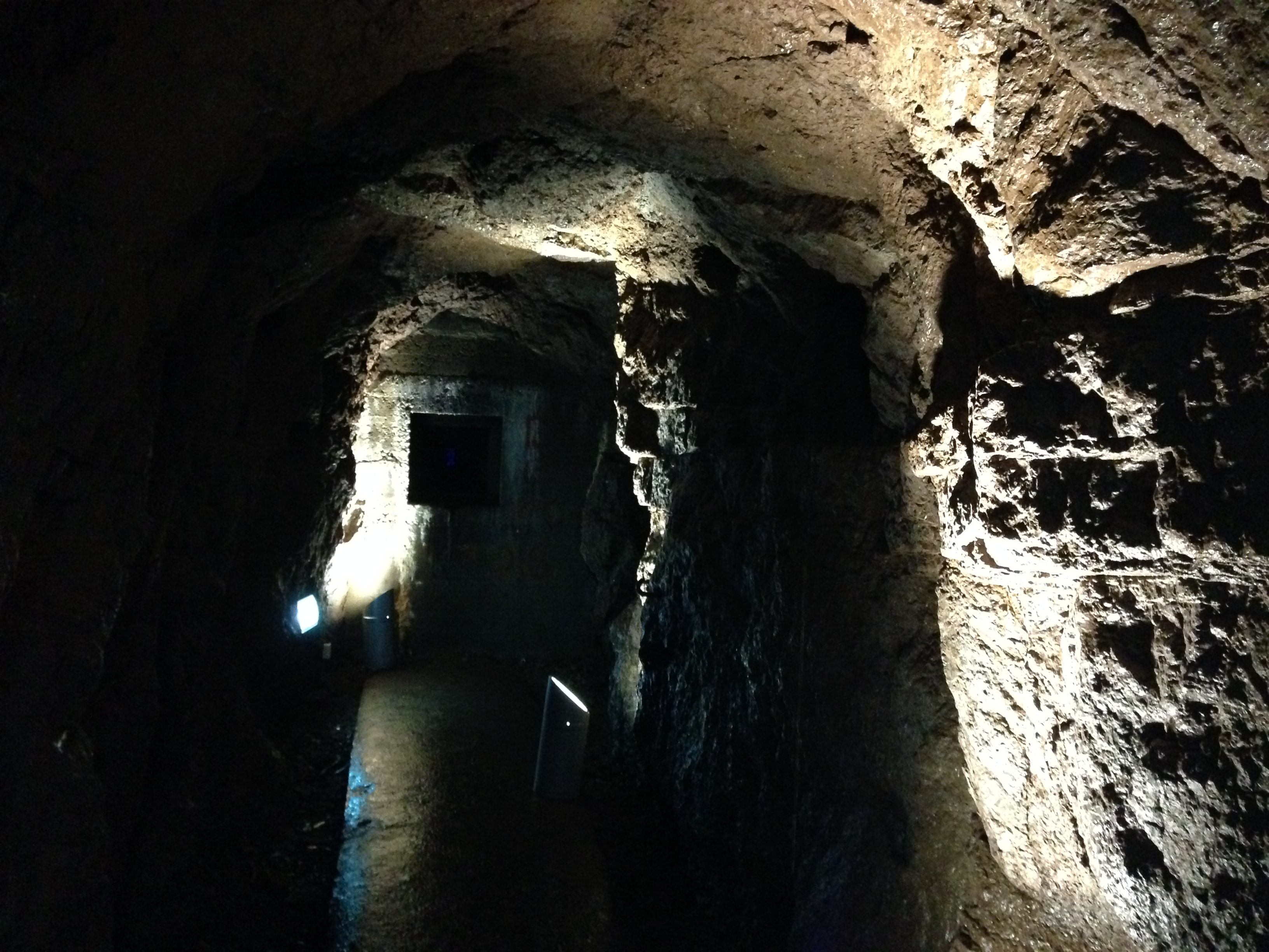 The exit of the bunker